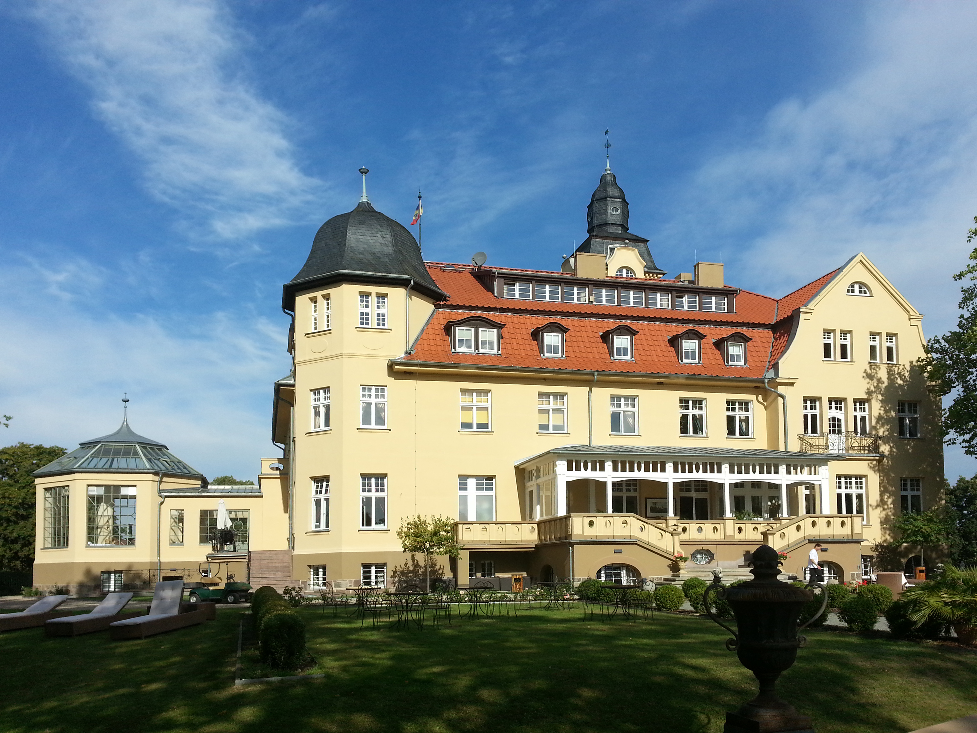 Manor house in Wendorf (Kuhlen-Wendorf), district Ludwigslust-Parchim, Mecklenburg-Vorpommern, Germany; south-east façade